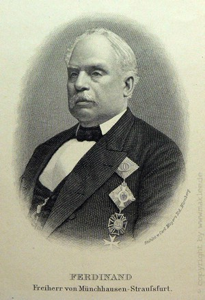 Ferdinand von Münchhausen (* 23. September 1810 in Straußfurt, Germany; † 21. Juli 1882 in Szczecin, Poland) german politician.